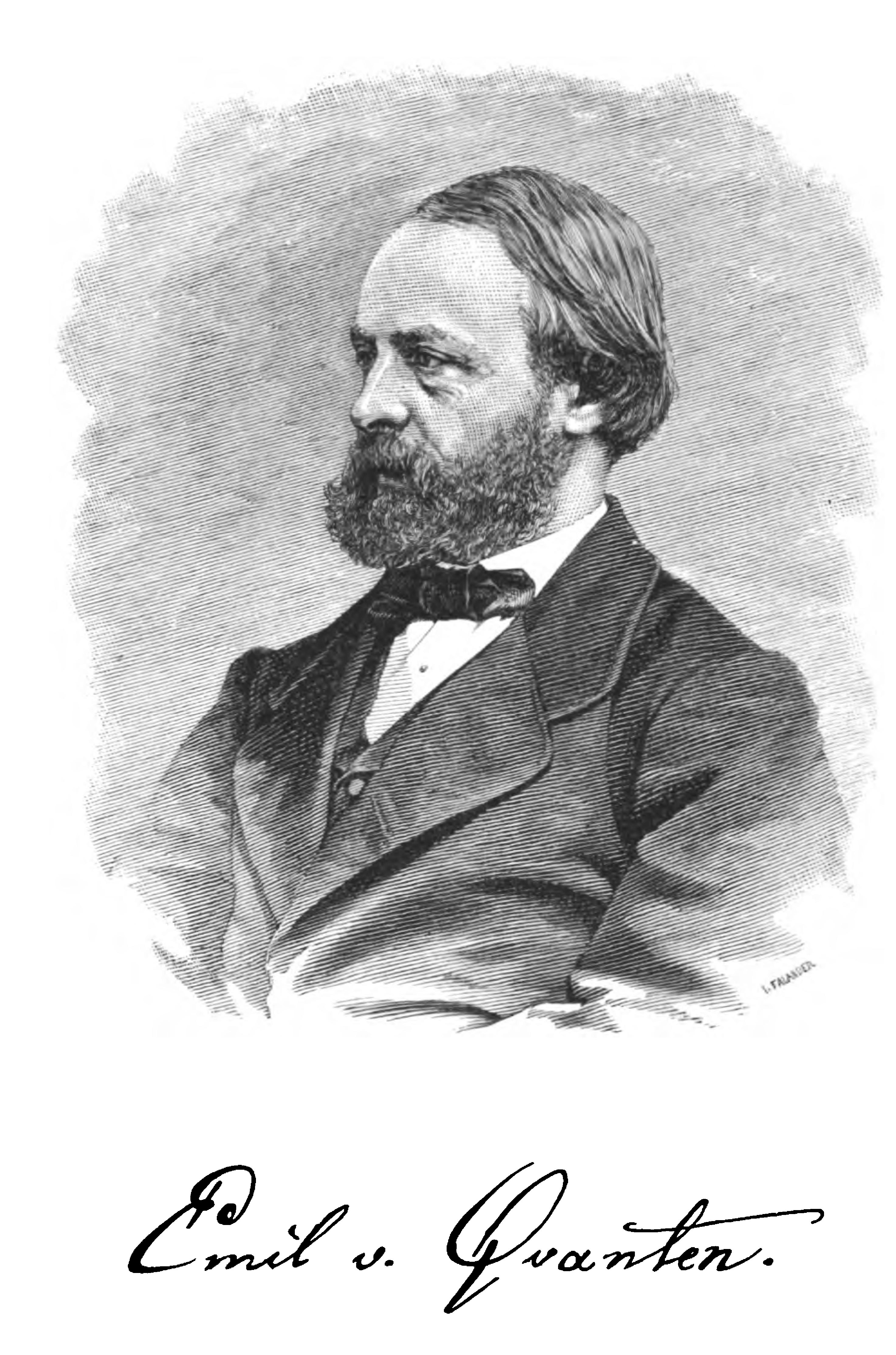 Emil von Qvanten (1827-1903), Finnish-Swedish nobleman, poet, publicist, librarian and member of parliament.